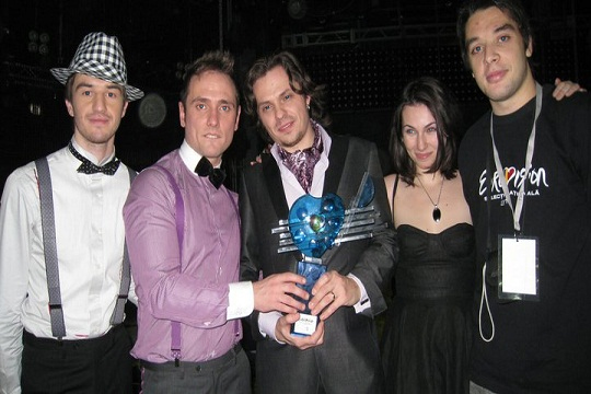 The line-up of Hotel FM, the Romanian representatives at the Eurovision Song Contest 2011